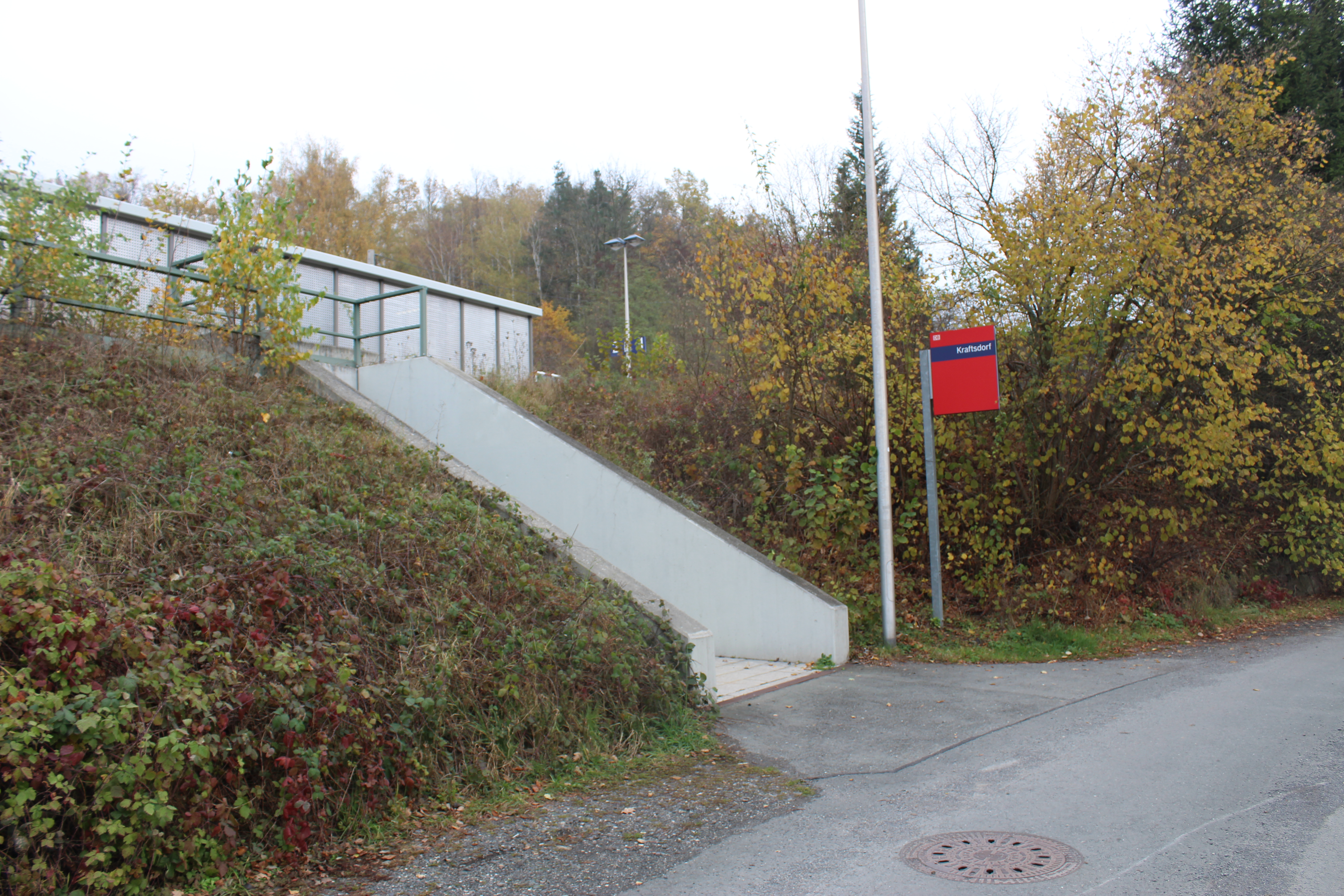 train station Kraftsdorf, entrance